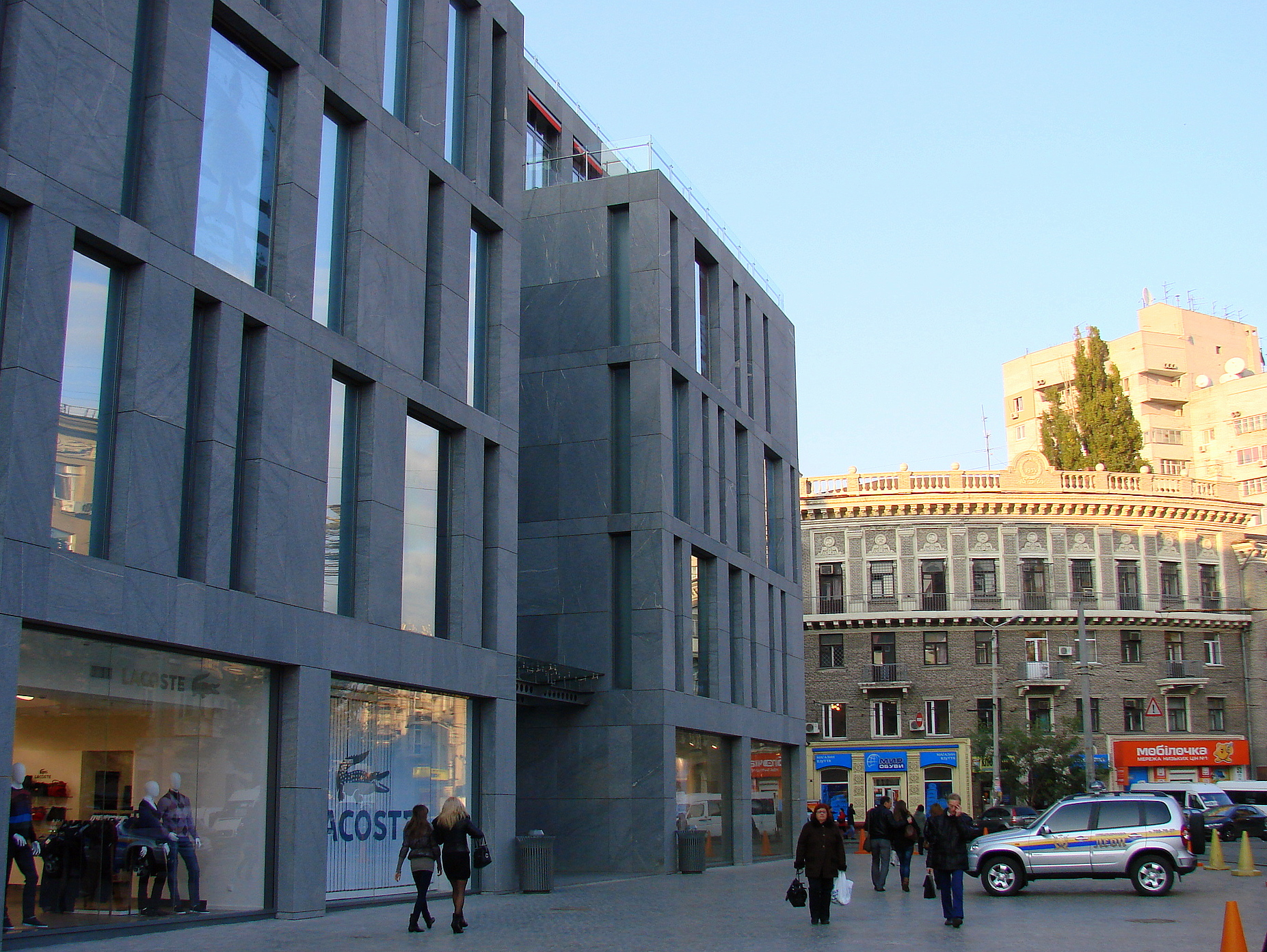 Passage Shopping Centre, Dnepropetrovsk, Ukraine